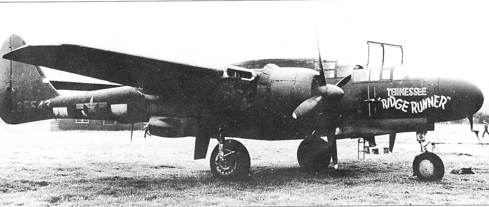 Northrop P-61A-5-NO Black Widow/42-5543/Tennessee Ridge Runner of the 422d Night Fighter Squadron, 1945